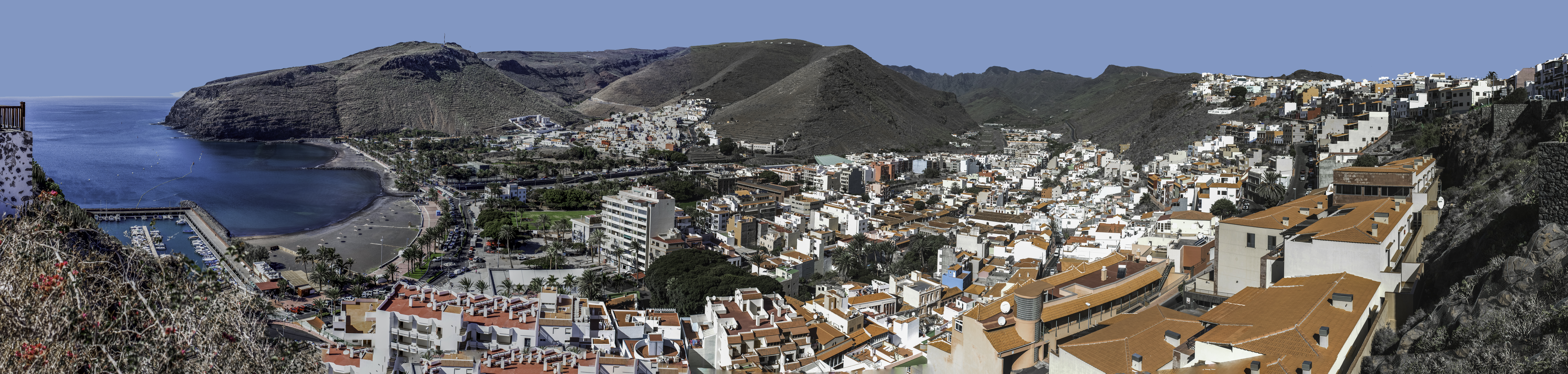 View of San Sebastian, La Gomera, Canary Islands